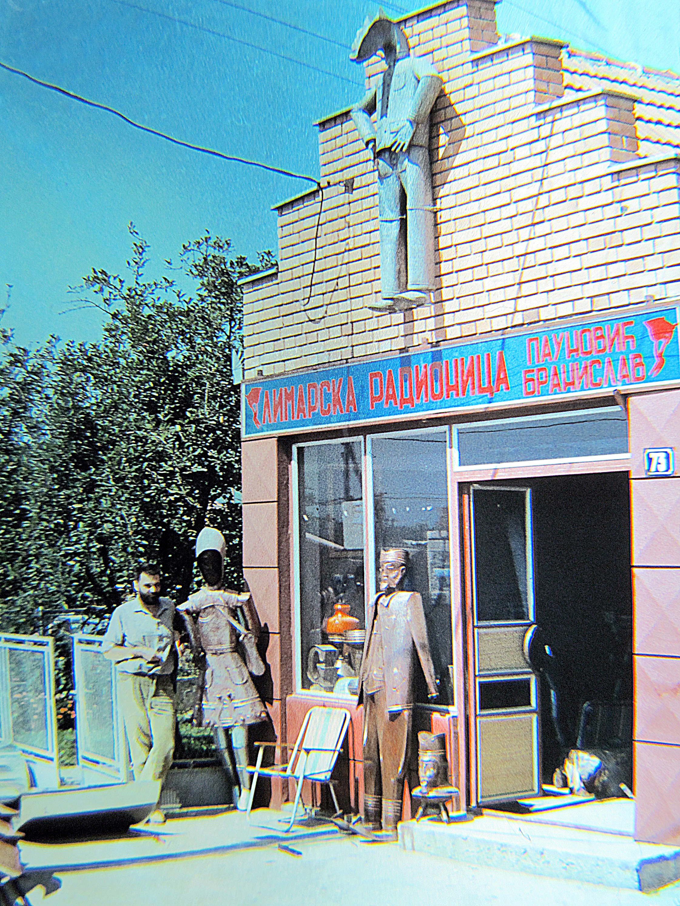 Tinsmith, Čačak, Serbia